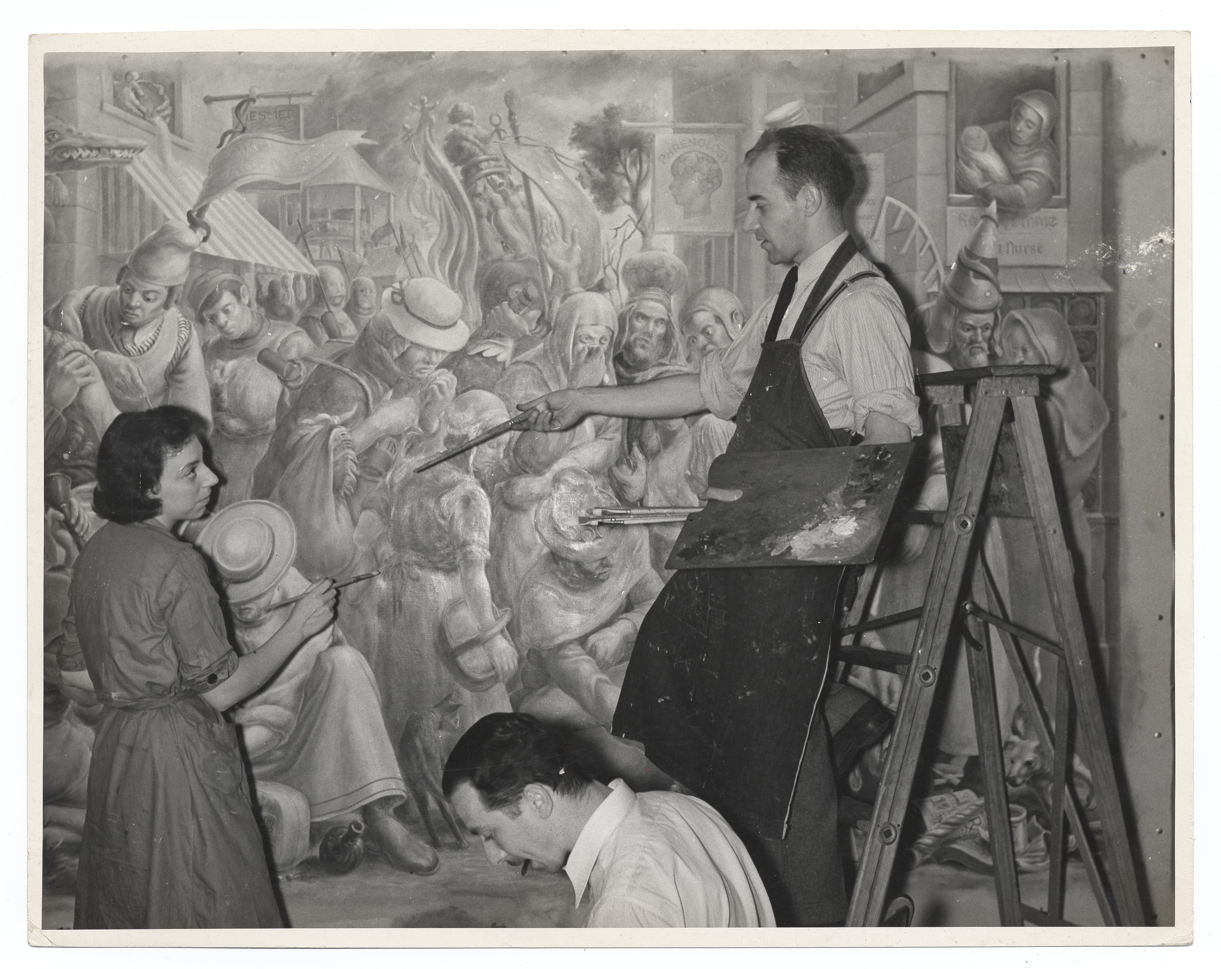 Palmer working on a WPA mural at the Queens County General Hospital. Identification on verso (handwritten and stamped): Art Service Project; 137 E. 57th Street; New York CityLocation: Art Service Park (Murals); Date: 8/7/36; Negative No.: 1368A; Photographer: Herman; Artist: Wm. C. Palmer; Title: Foibles of Medicine.Accompanying paper reads: William C. PalmerBorn in 1906, Des Moines, Iowa. Studied at Art Students League, Exoleves Beaux Arts De Fontainbleau, France; Taught privately ; did a mural for Queens Co. General Hospital, while on PWAP, from July to Oct., 1934. Studied fresco, painting under Baudoun in 1927. Private instructor in technical facts on painting, chemistry of color, method, oil in tempera and Florentine guilding.